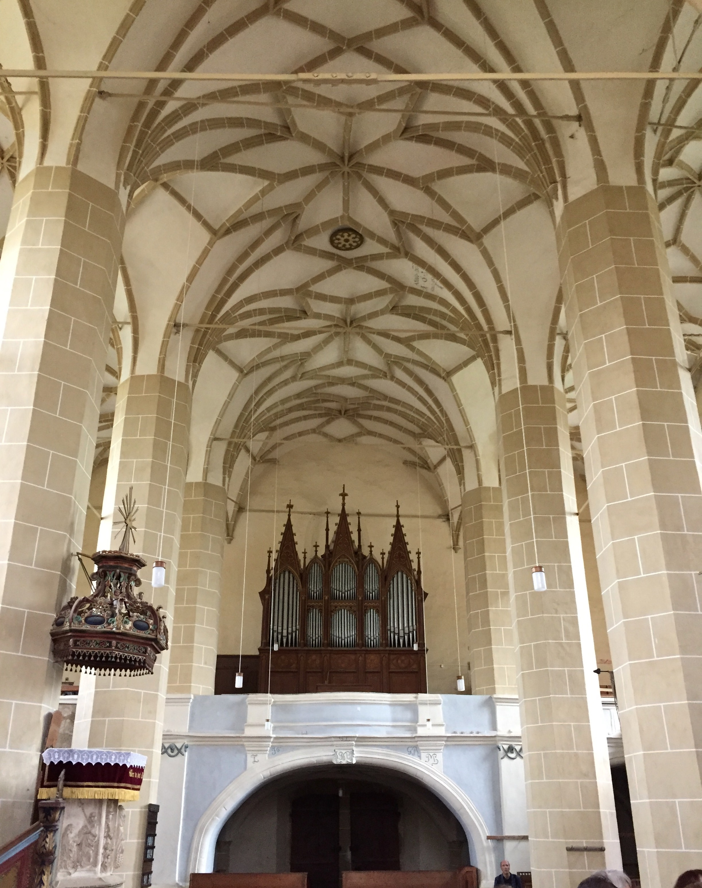 Nave and Western gallery of the fortified church of Biertan, Sibiu County, Romania